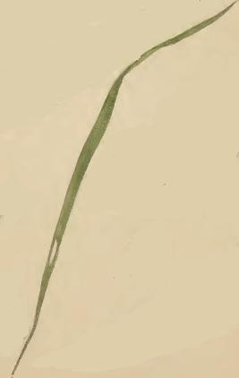 Stainton’s Natural History of the Tineina (1855–1873): Elachista humilis mined leaf blade of Deschampsia caespitosa